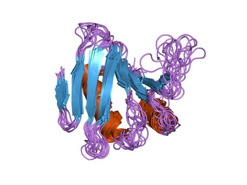 Cartoon representation of the molecular structure of protein registered with 1zo0 code.